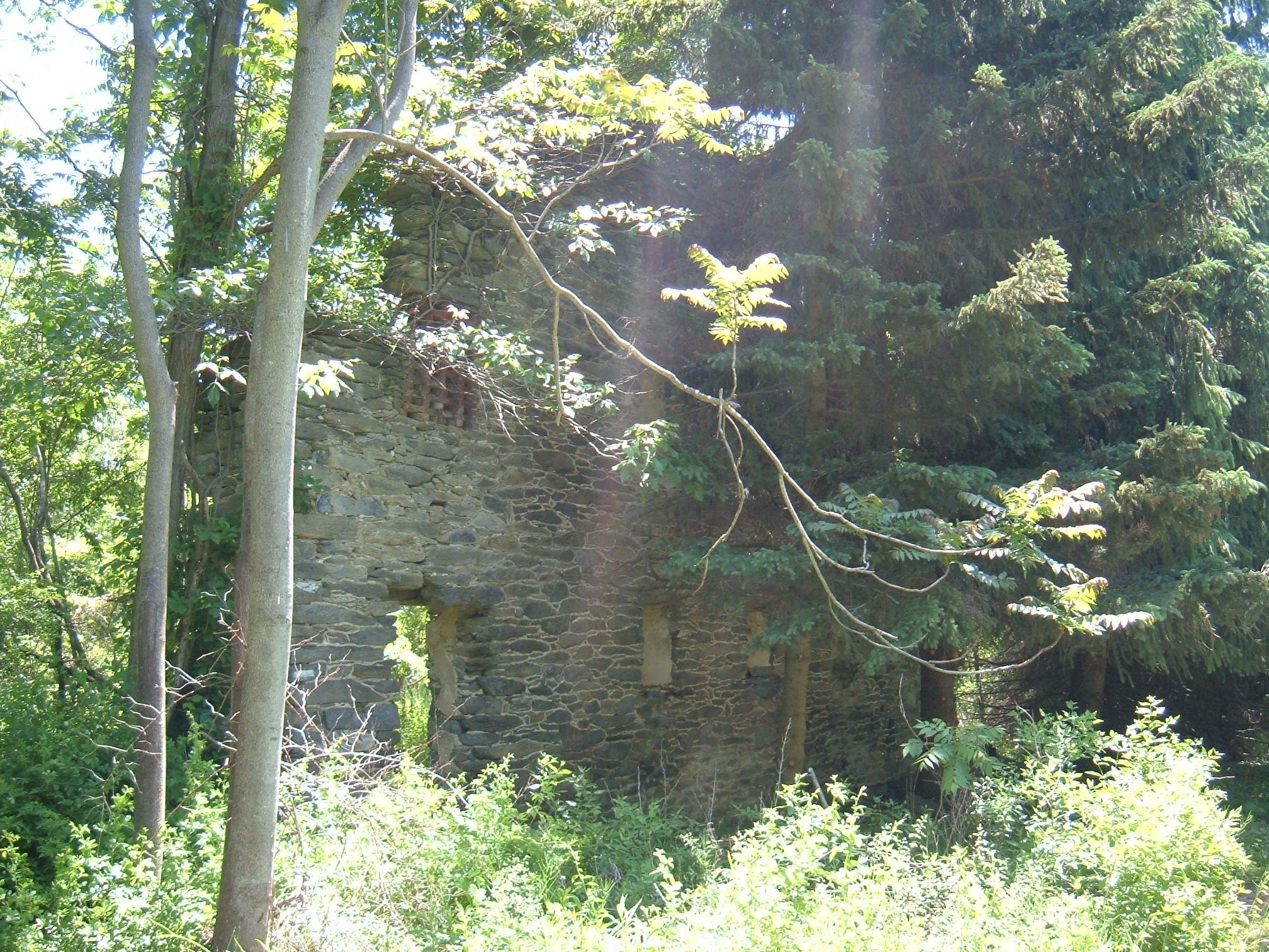 End wall of ruined stone barn (18th century) at Camp Michaux -- formerly a tenant farm supporting the iron industry at what is now Pine Grove Furnace State Park, 1.5 miles southeast from Camp Michaux. The farm's last harvest was wheat in 1918, after which the area became a Civilian Conservation Corps camp, a World War II prisoner of war interrogation camp, and then a church summer camp until 1972. It is rumored (but unproven) that the barn was built by Hessian prisoners of war who are documented to have built the Powder Magazine building (1777) at the War College in Carlisle PA. No other structures from the farm era of Camp Michaux remain.